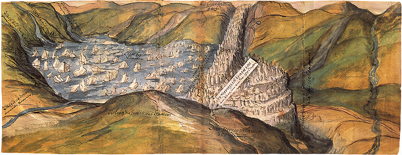 The Rofener Eissee, Rofener ice lake, was an ice reservoir in the Ötztal Alps in Tyrol